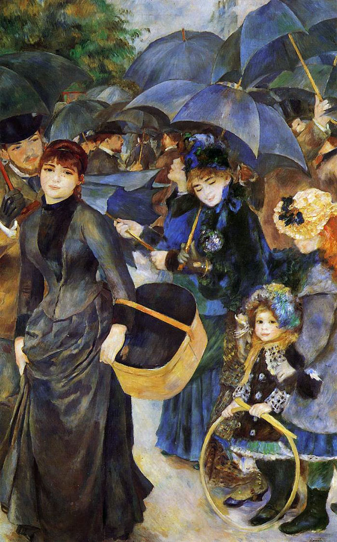 Umbrellas (1883). Note: Artist Suzanne Valadon seen at left carrying basket.